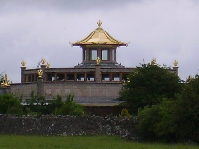 Manjushri Kadampa. Buddhist Temple in the grounds of Conishead Priory